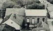 Synagogue in Prabuty